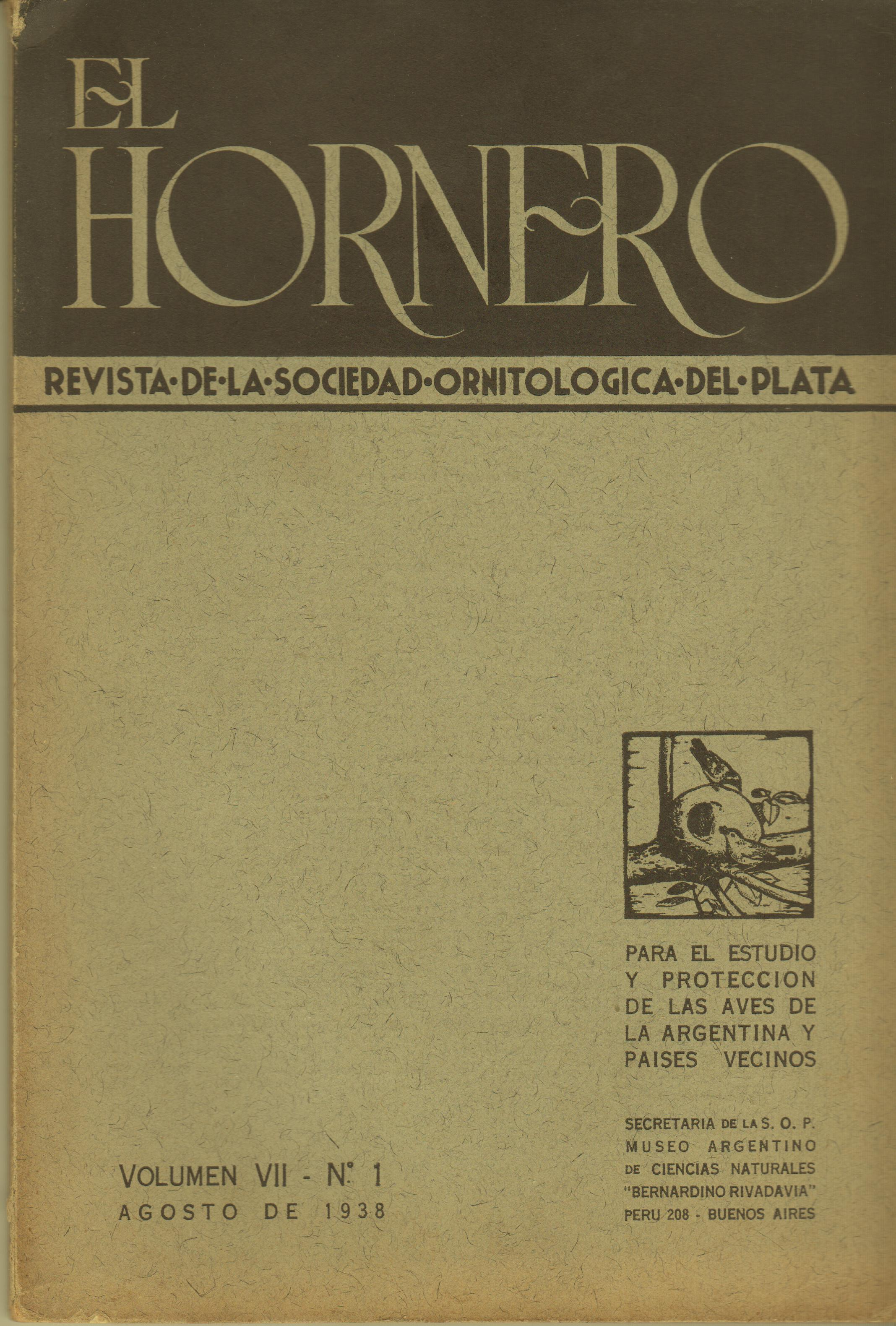 Cover for El Hornero magazine, published by Sociedad Ornitológica del Plata.